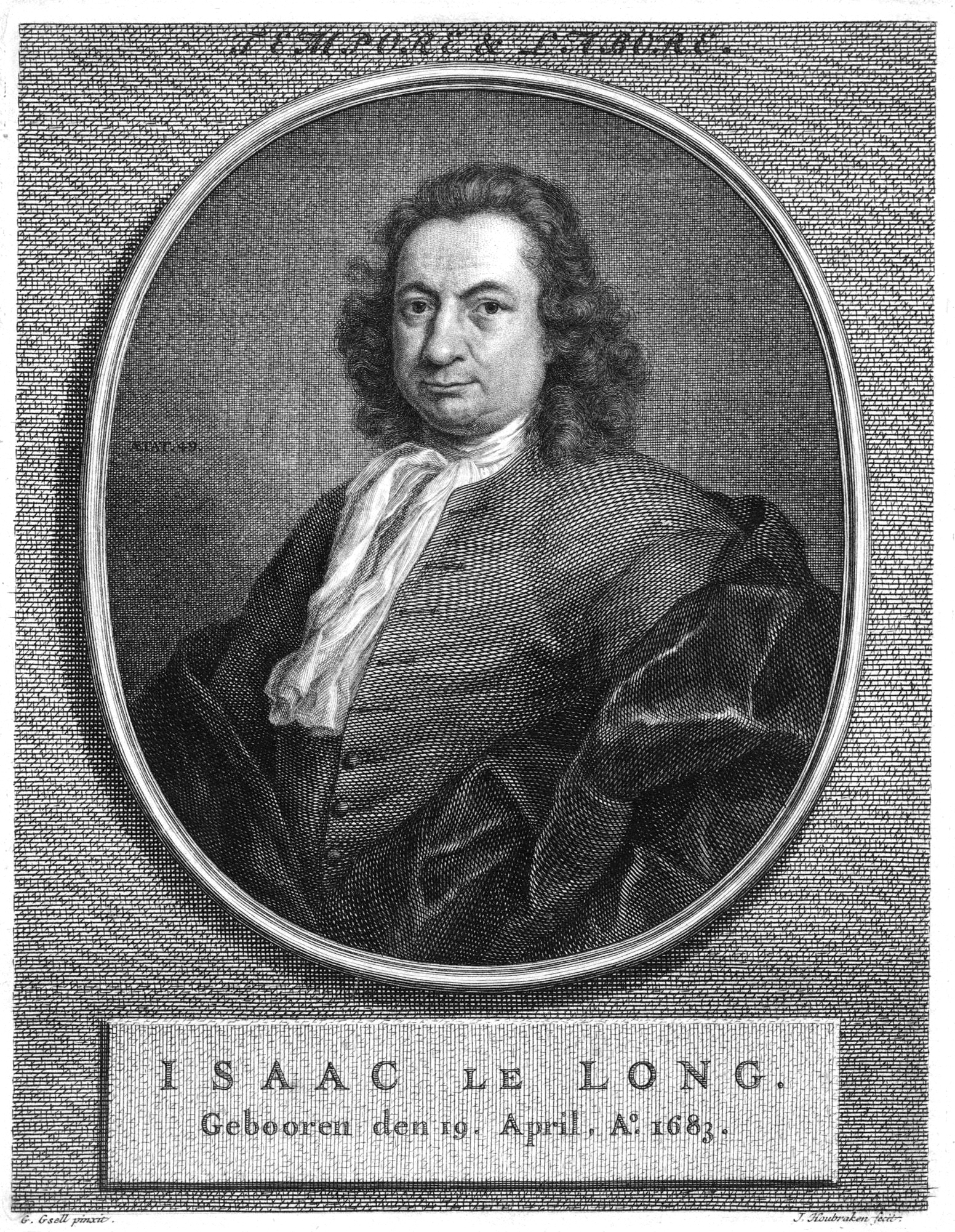 Isaac le Long (1683 - 1762) engraving 16.4 x 12.6 cm 1732